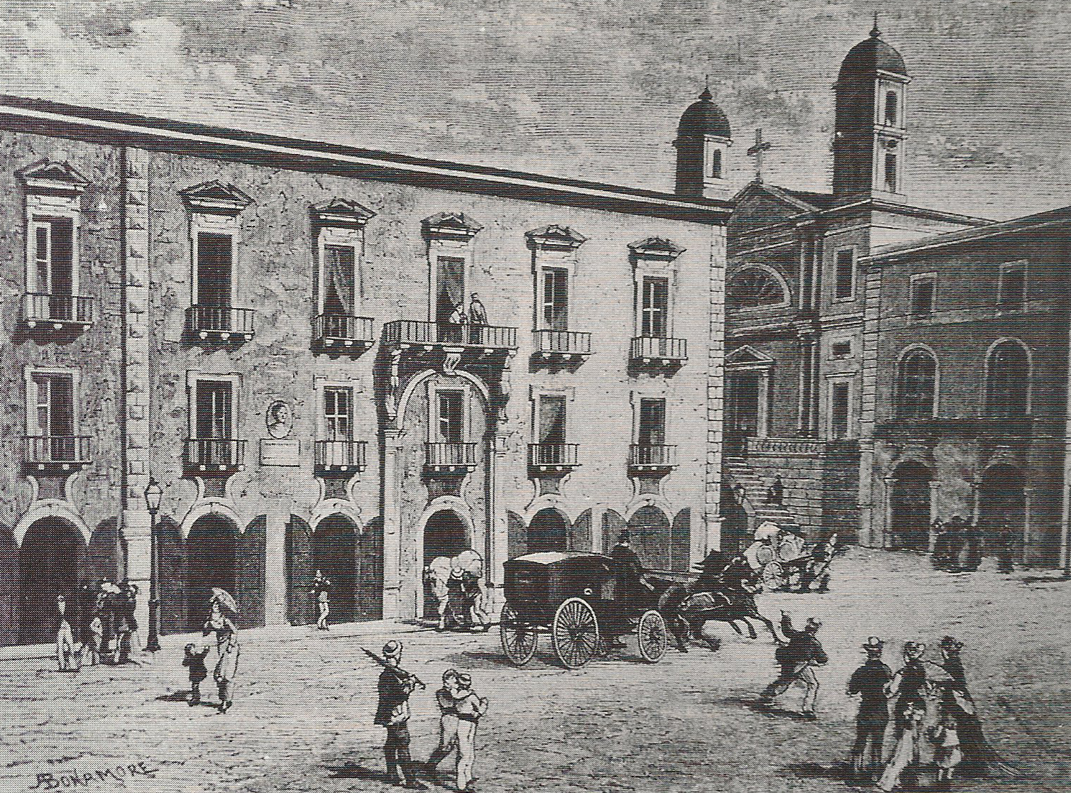 Bellini birthplace-Palazzo dei Gravina Gruyas-Catania